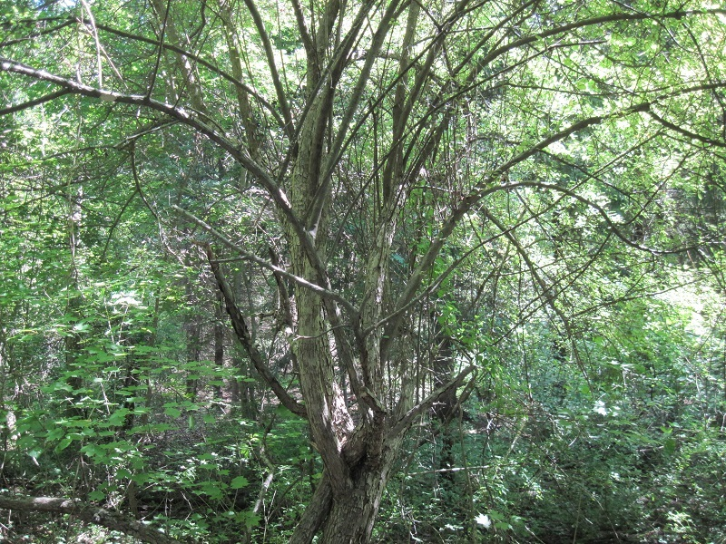 Sweet Crabapple (Malus coronaria) growing in the woods of Hollis, New Hampshire.